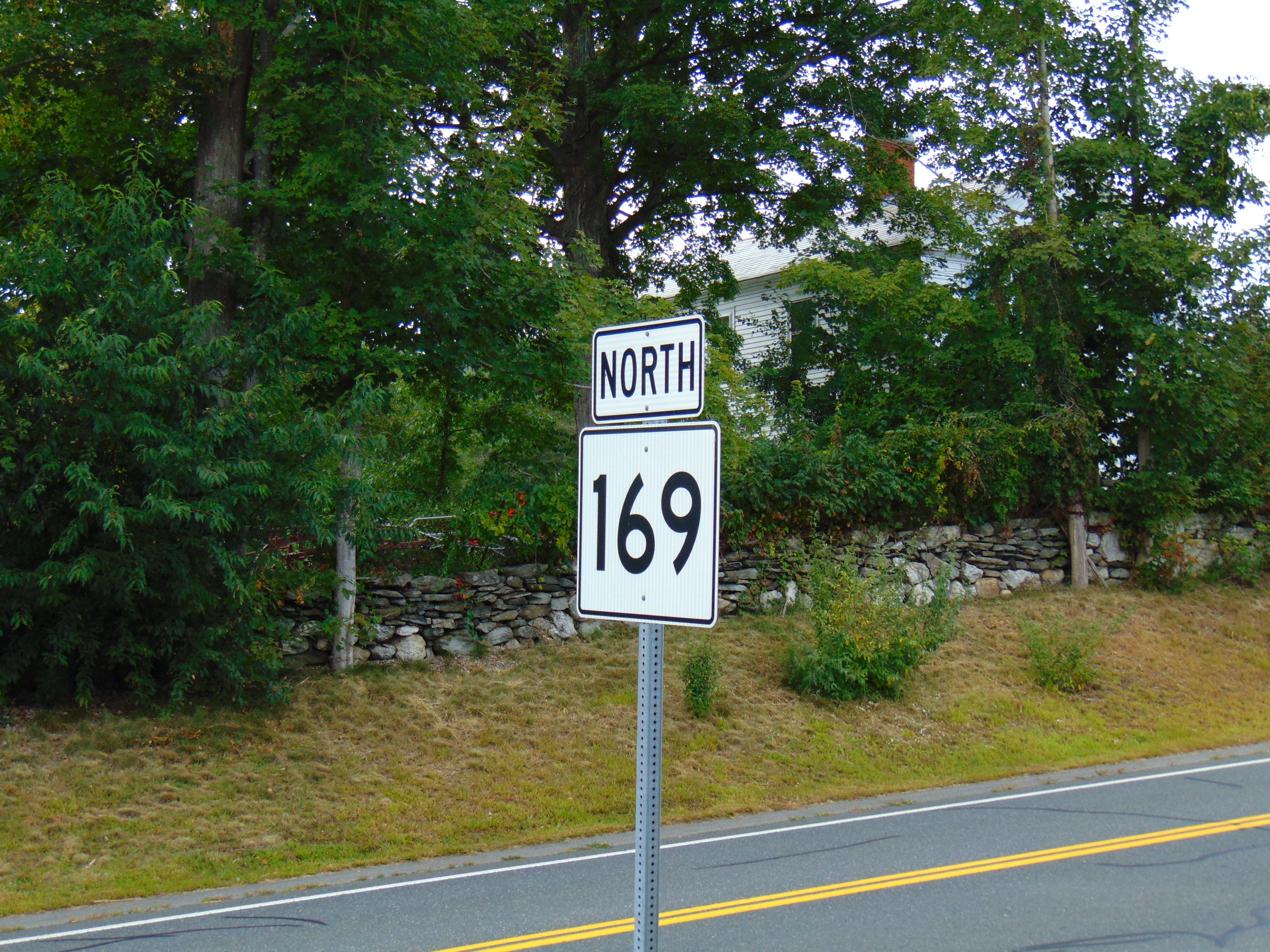 A MA 169 sign in Southbridge, Massachusetts (nabbed from my Flickr)